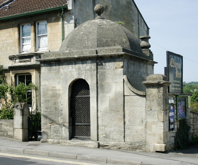 The Blind House, Box. A small stone lockup from former times where miscreants could be kept overnight until they could be dealt with by the local court, or until they had sobered up. There is a similar building in 2488